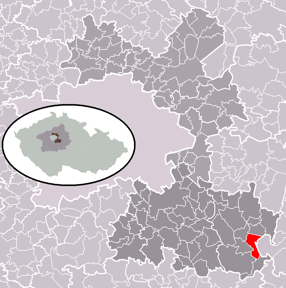 Location of Výžerky municipality within Prague-East District and administrative area of Říčany as a Municipality with Extended Competence.